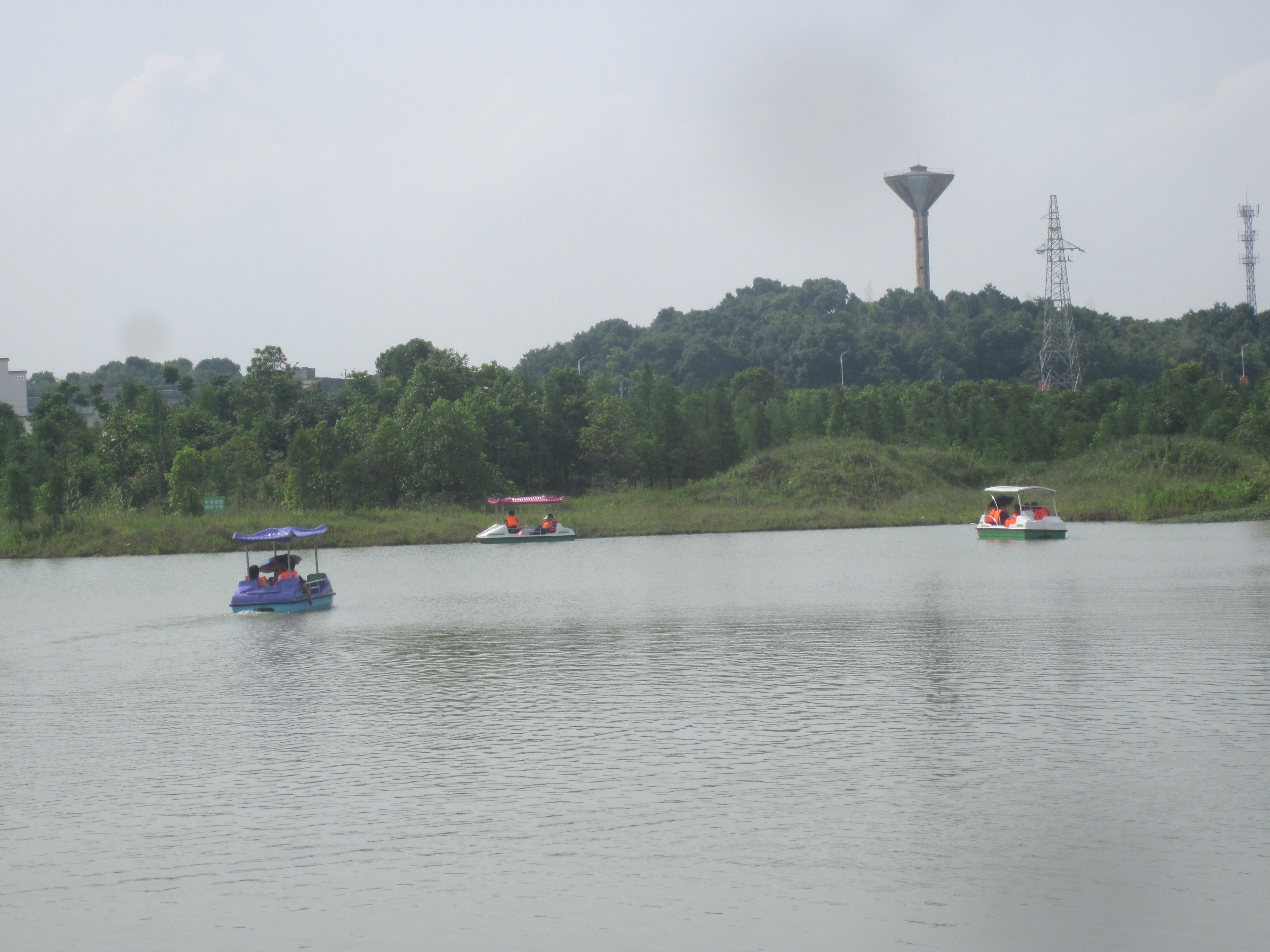 The Yunmeng Fangzhou Water Park in Changchun Town of Ziyang District, Yiyang, central China's Hunan province.